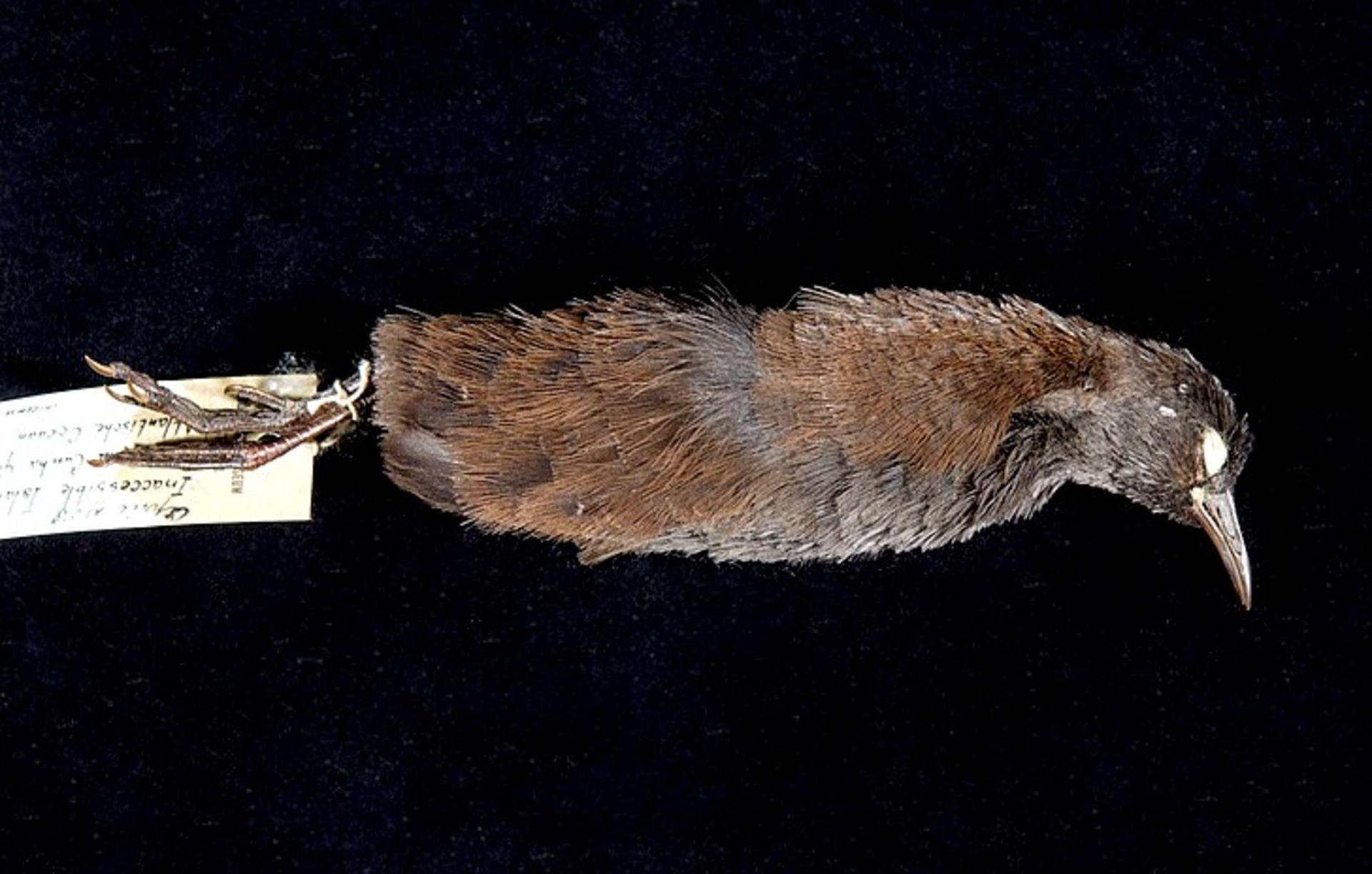 Atlantisia rogersi Lowe, P.R. , 1923